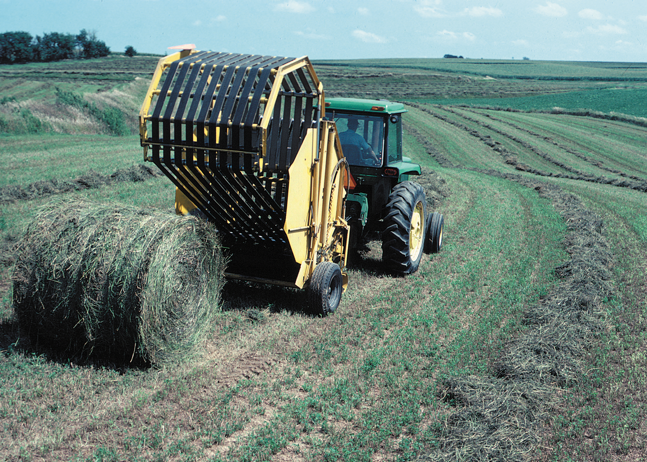 John Deere tractor at work with a round baler. – Large bales of hay are being made on highly erodible land in northeast Iowa. Having the land in hayland is very good protection against erosion.